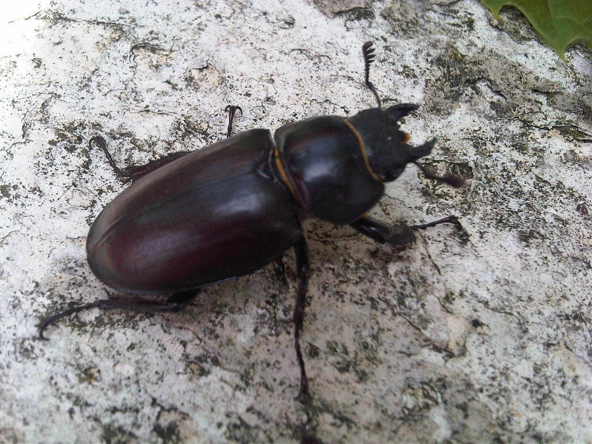 Female Lucanus cervus in London, England.